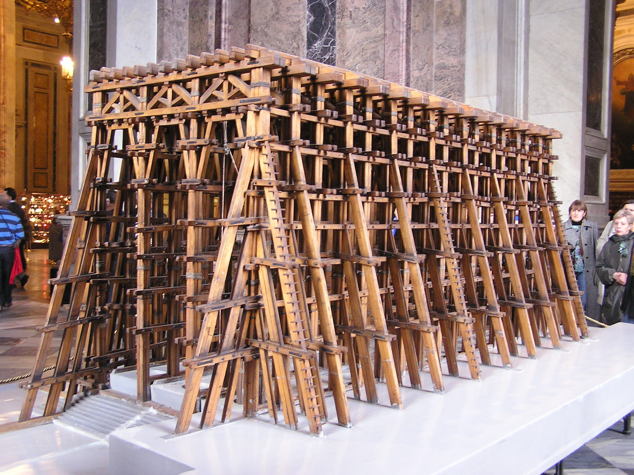 Saint Isaac's Cathedral